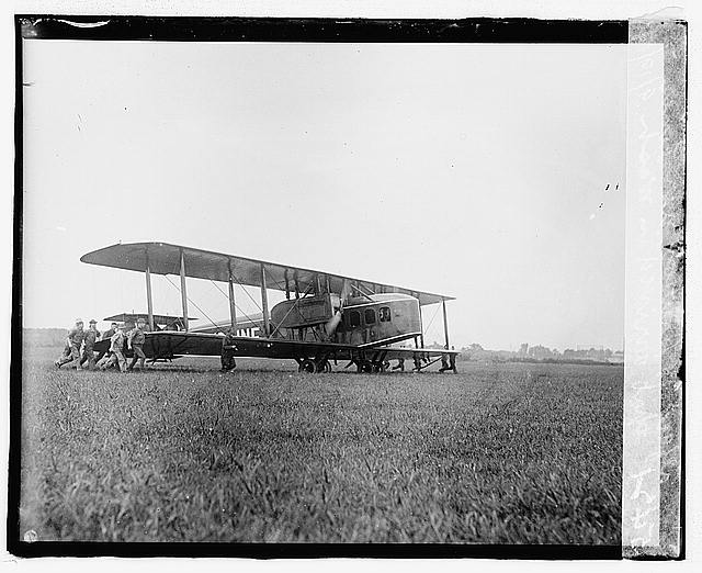 Alfred W. Lawson air liner that arrived in Washington D. C., [Bolling field] 9/19/19